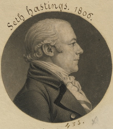 Seth Hastings, Massachusetts Congressman